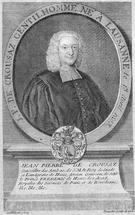 Swiss philosopher Jean-Pierre de Crousaz (1663-1750).